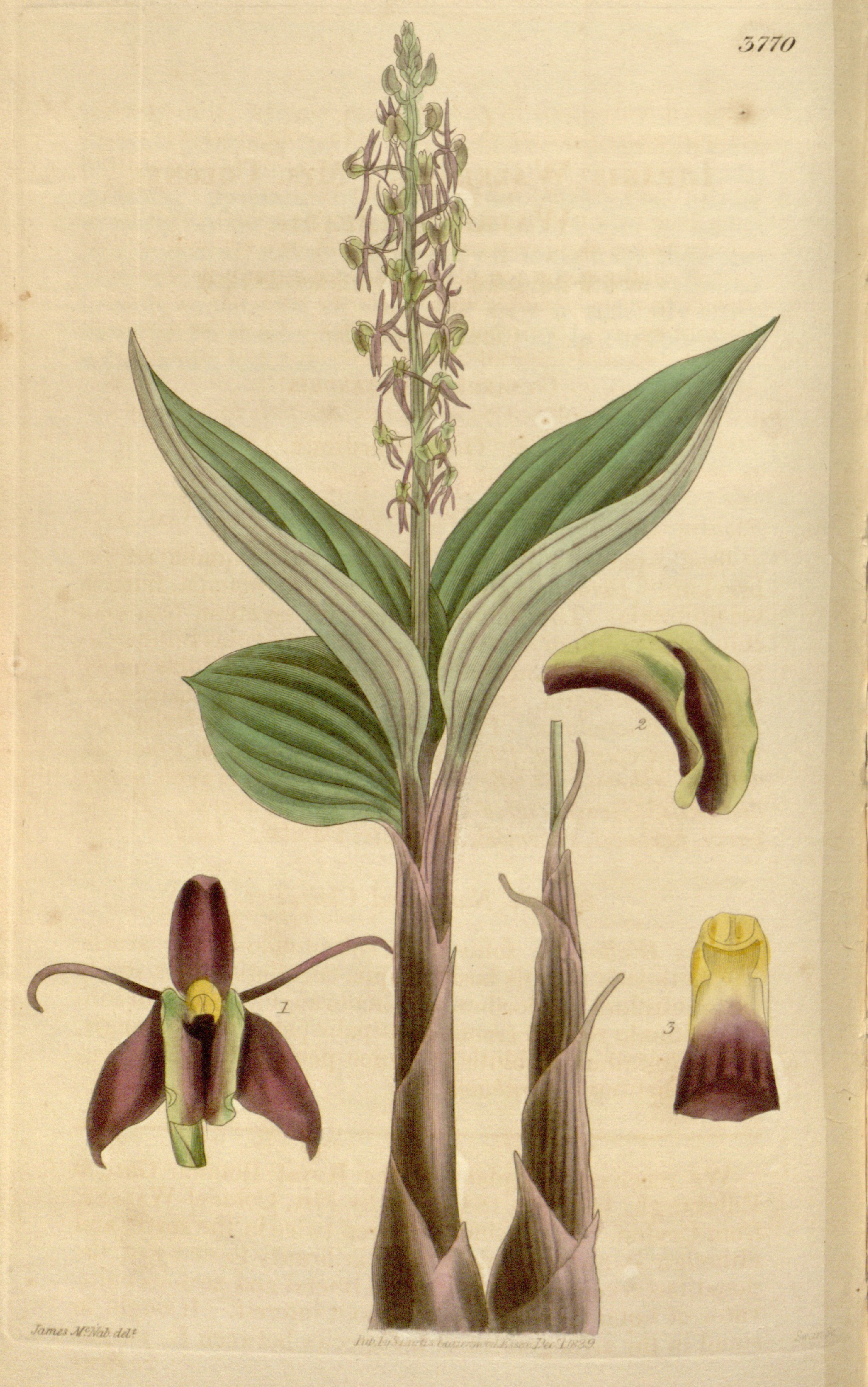 Illustration of Liparis walkeriae